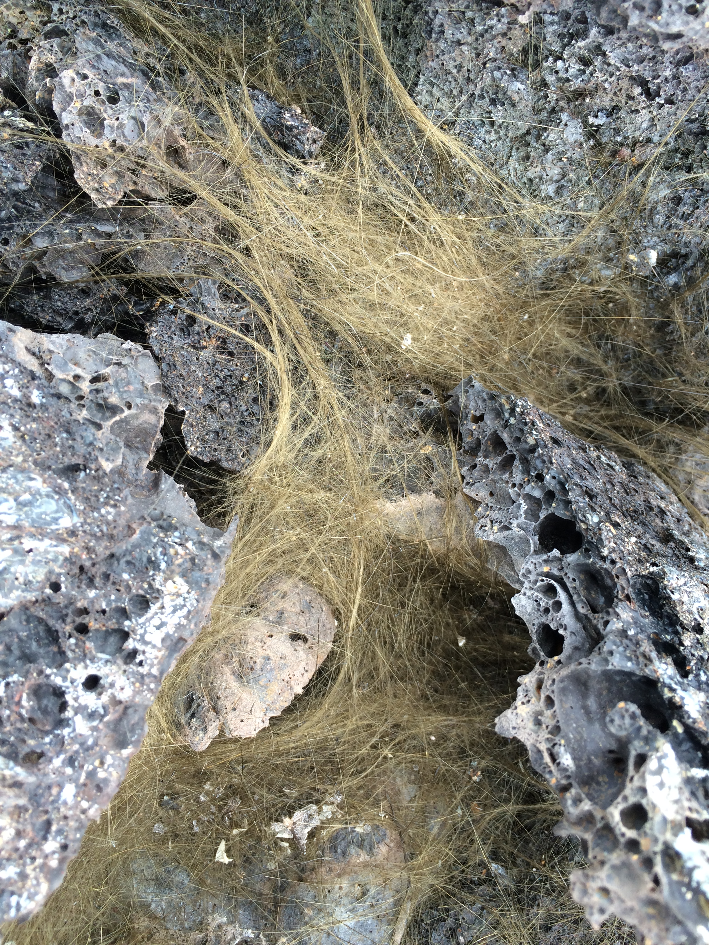 Pele’s hair Greenish-gold strands of Pele’s hair form when bubbles in hot lava pop and throw droplets into the wind. The droplets can elongate into perfectly straight, glassy strands that are as thin as human hair. Credit: NASA/GSFC/Andrea Jones In June, five student journalists from Stony Brook University packed their hiking boots and hydration packs and joined a NASA-funded science team for 10 days on the lava fields of Kilauea, an active Hawaiian volcano. Kilauea’s lava fields are an ideal place to test equipment designed for use on Earth’s moon or Mars, because volcanic activity shaped so much of those terrains. The trip was part of an interdisciplinary program called RIS4E – short for Remote, In Situ, and Synchrotron Studies for Science and Exploration – which is designed to prepare for future exploration of the moon, near-Earth asteroids and the moons of Mars. To read reports from the RIS4E journalism students about their experiences in Hawaii, visit NASA image use policy. NASA Goddard Space Flight Center enables NASA’s mission through four scientific endeavors: Earth Science, Heliophysics, Solar System Exploration, and Astrophysics. Goddard plays a leading role in NASA’s accomplishments by contributing compelling scientific knowledge to advance the Agency’s mission. Follow us on Twitter Like us on Facebook Find us on Instagram